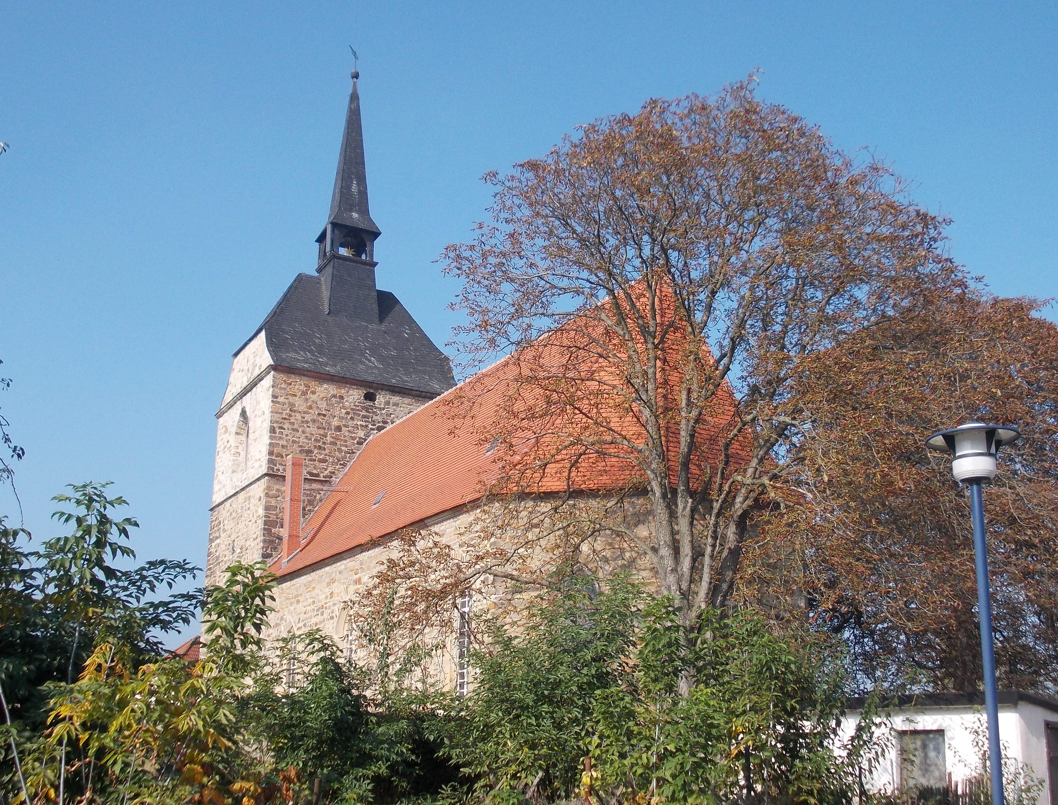 Holy Trinity Church in Steuden (Teutschenthal, district: Saalekreis, Saxony-Anhalt)